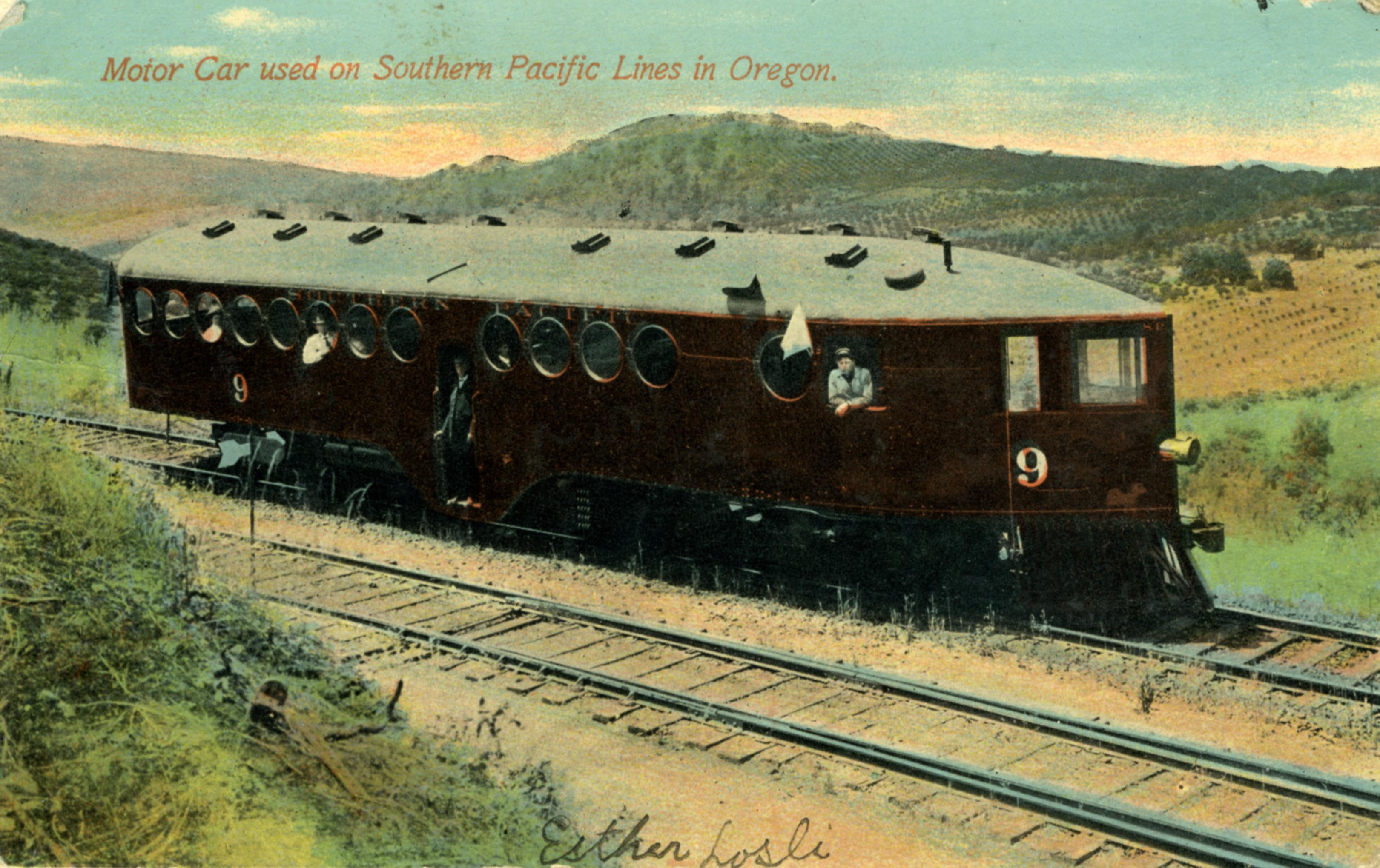 Original Collection: Gerald W. Williams Collection, 1855-2007 Item Number: WilliamsG: wvmotorcar You can find this image by searching for the item number by clicking here. Want more? You can find more digital resources online. We're happy for you to share this digital image within the spirit of The Commons; however, certain restrictions on high quality reproductions of the original physical version may apply. To read more about what “no known restrictions” means, please visit the Special Collections & Archives website, or contact staff at the OSU Special Collections & Archives Research Center for details.